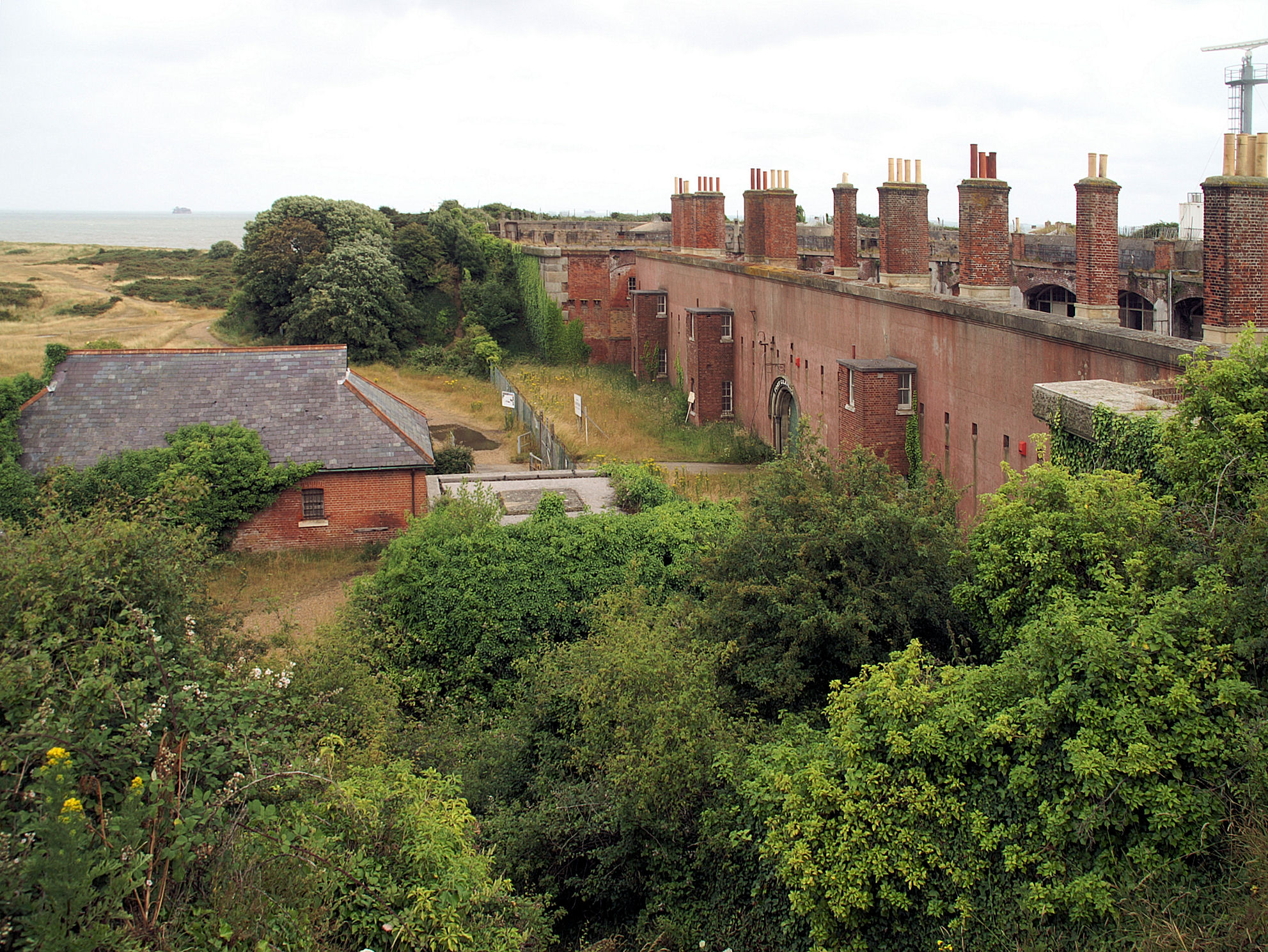 The landward side of Fort Gilkicker, Stokes Bay, Gosport, Hampshire.